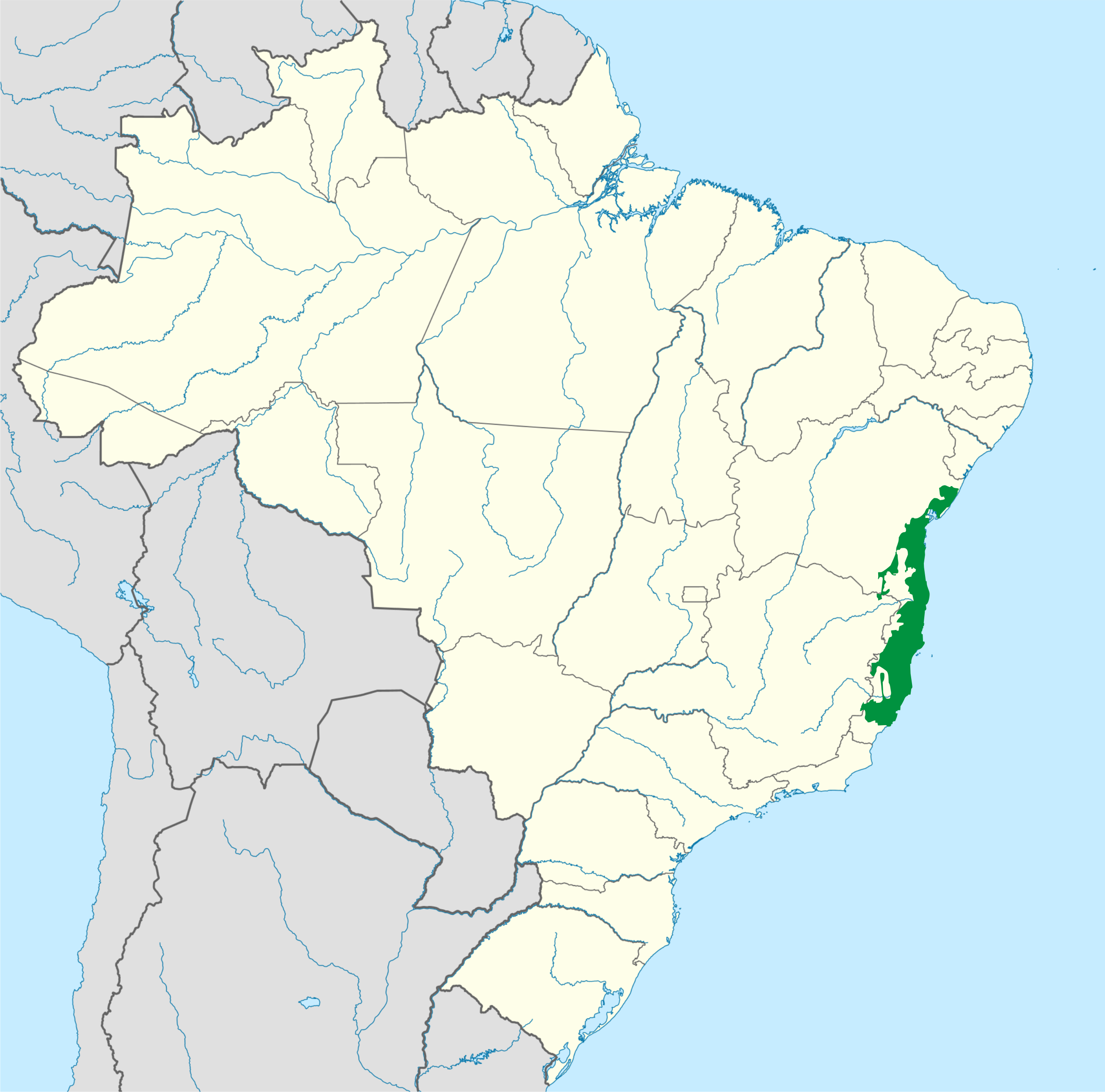 Approximate area of the Bahia coastal forests ecoregion — of the Atlantic Forest biome. As delineated by WWF.